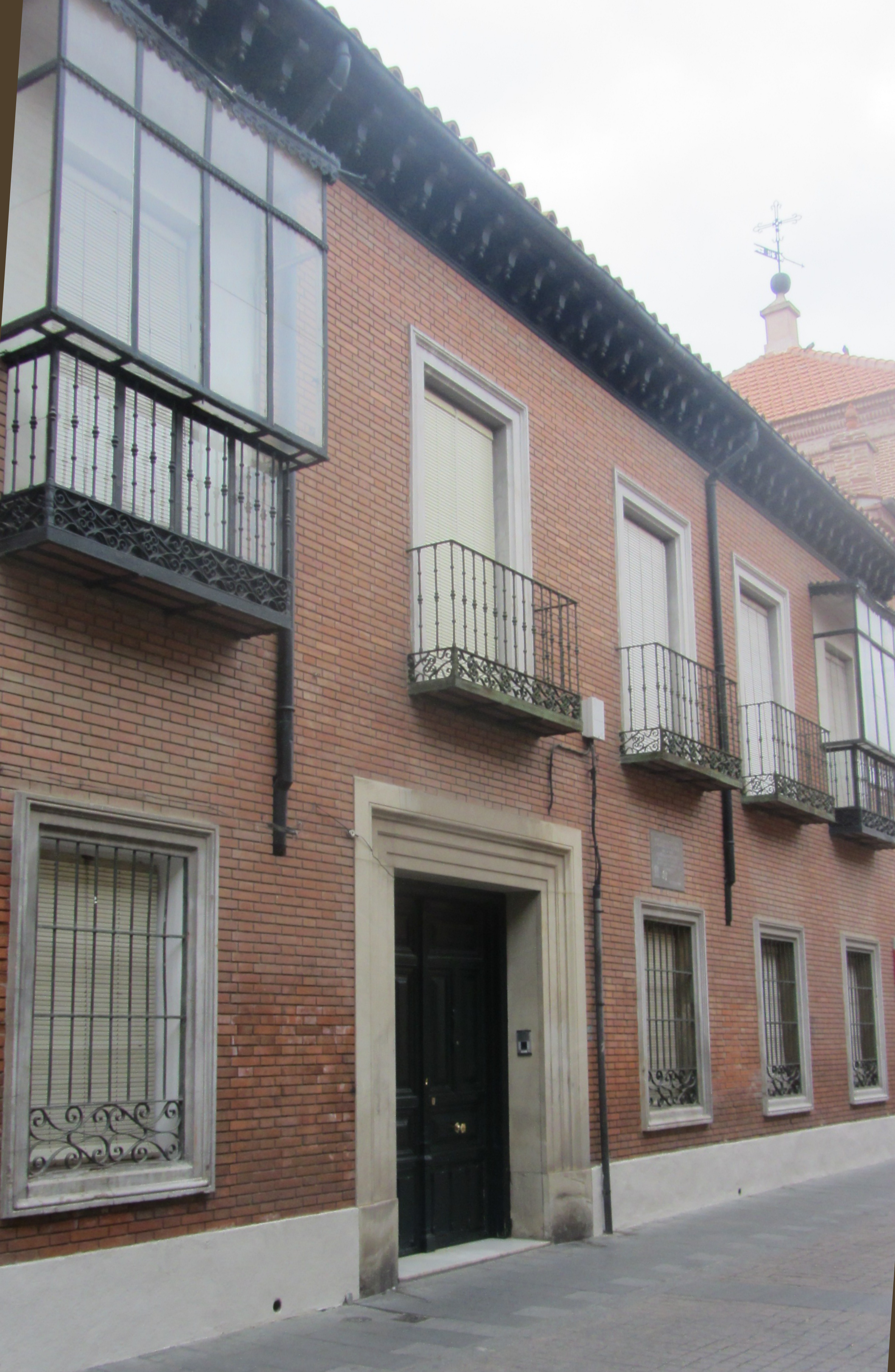 Birthplace Manuel Azaña in Alcalá de Henares (Madrid - Spain).